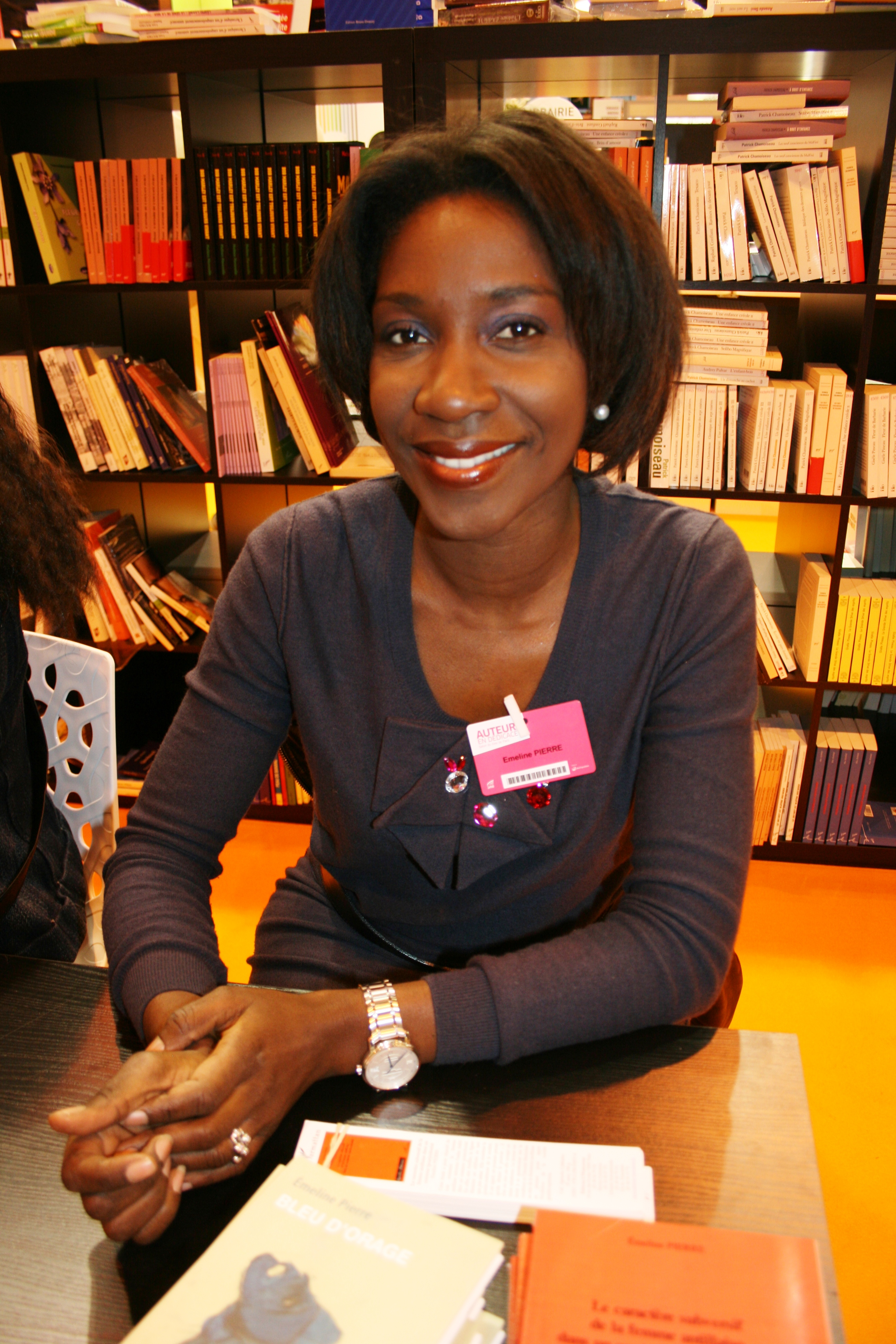 The French writer Émeline Pierre at the 2011 Paris Book Fair.